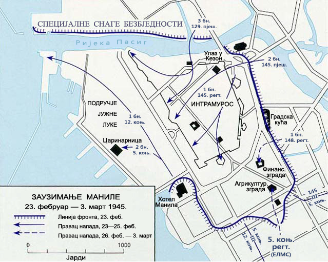 Map for the Capture of Manila [in Serbian]